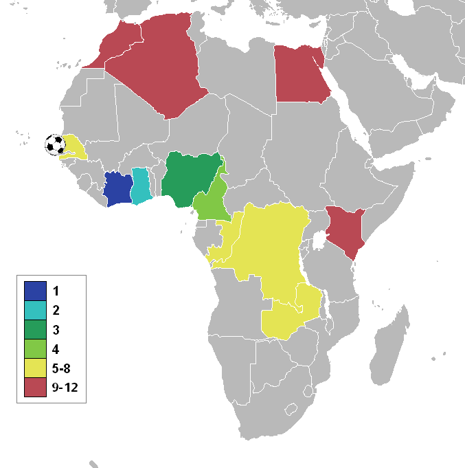 Countries positions in the African Cup of Nations 1st 2nd 3rd 4th 5th-8th 9th-16th Football denotes host nation